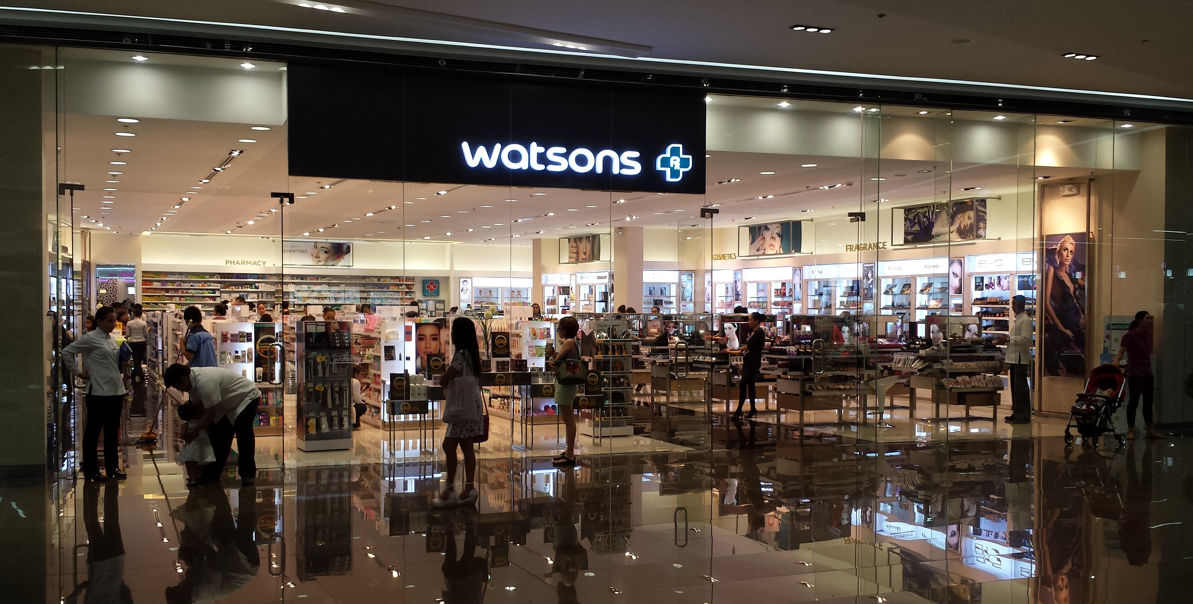 Watsons health and beauty store in the shopping mall 'SM Aura Premier' in Bonifacio Global City, Metro Manila, Philippines.